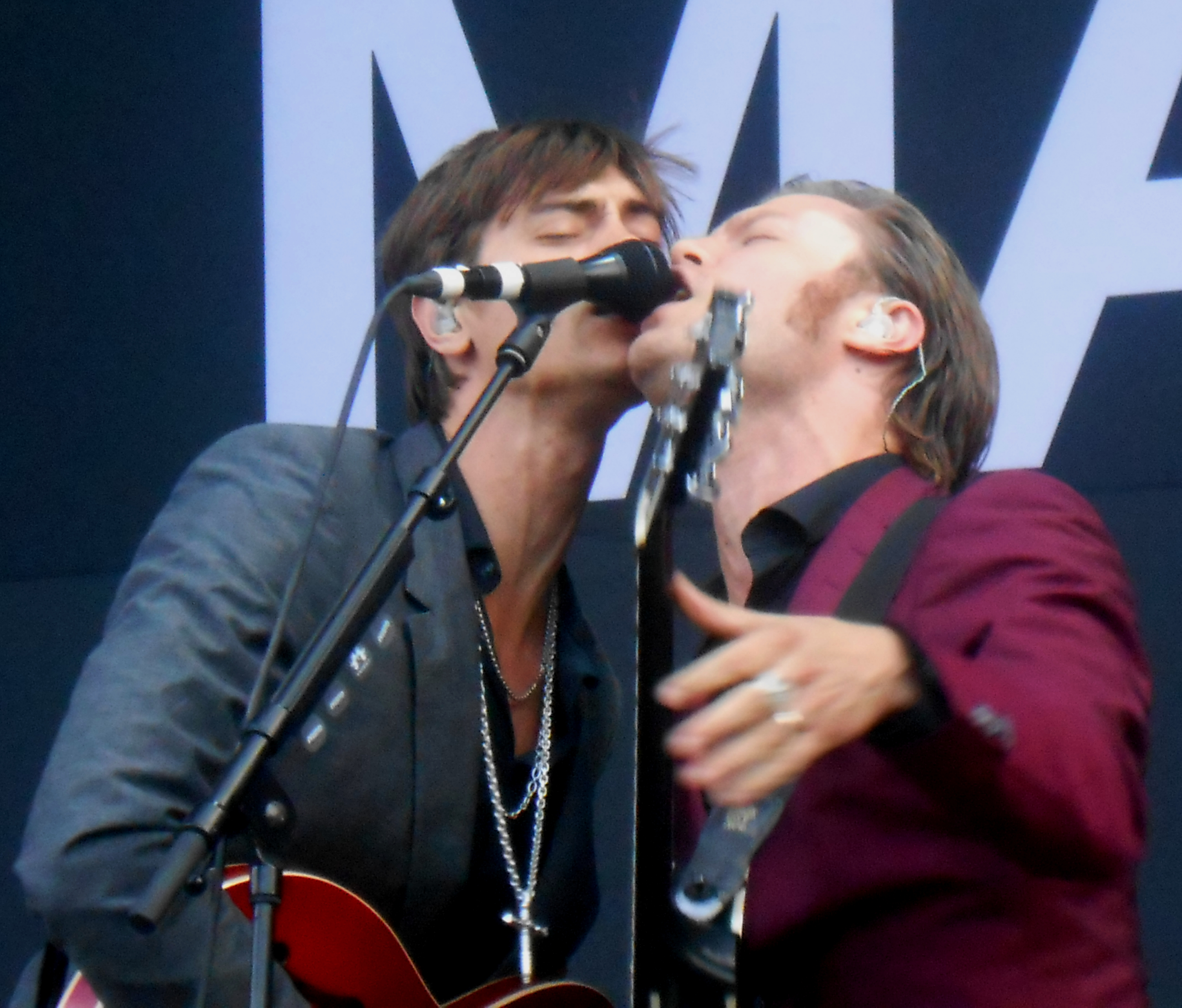 live show at Sziget Festival, 08-12-2012